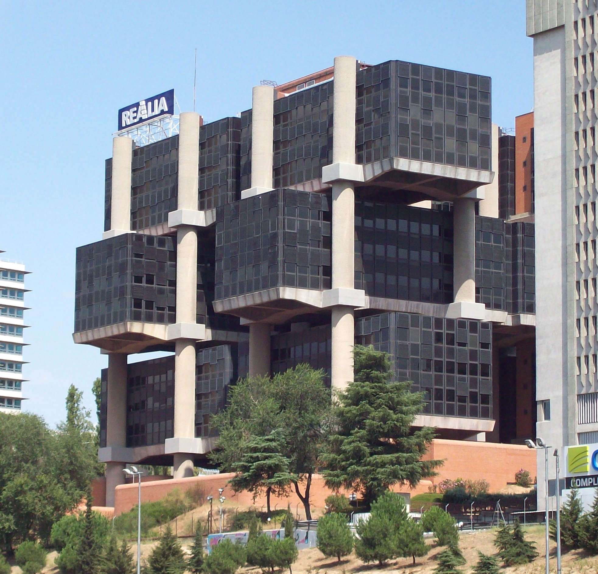 View of the AGF Building in Madrid (Spain).